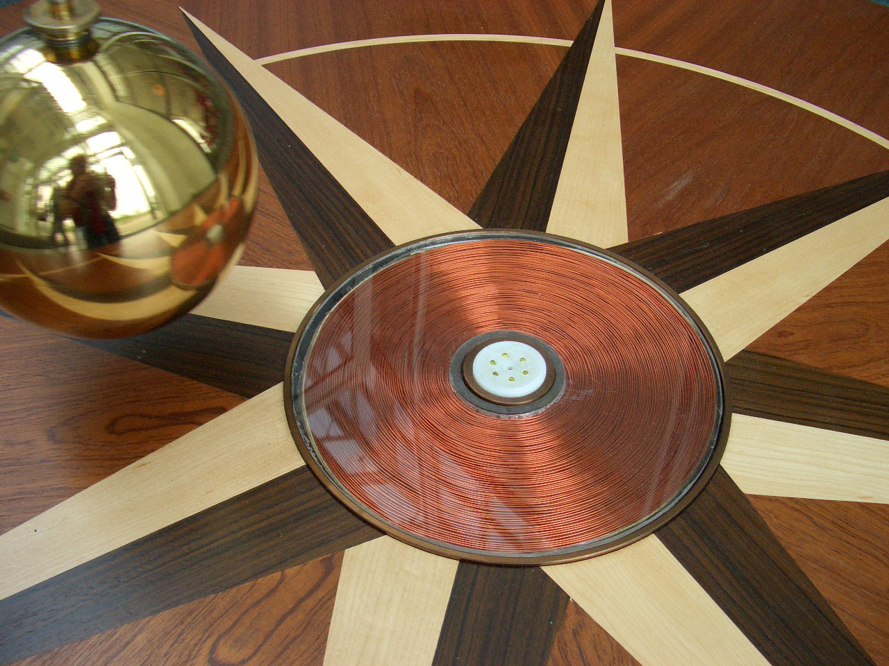 Foucault pendulum in Motala, Sweden